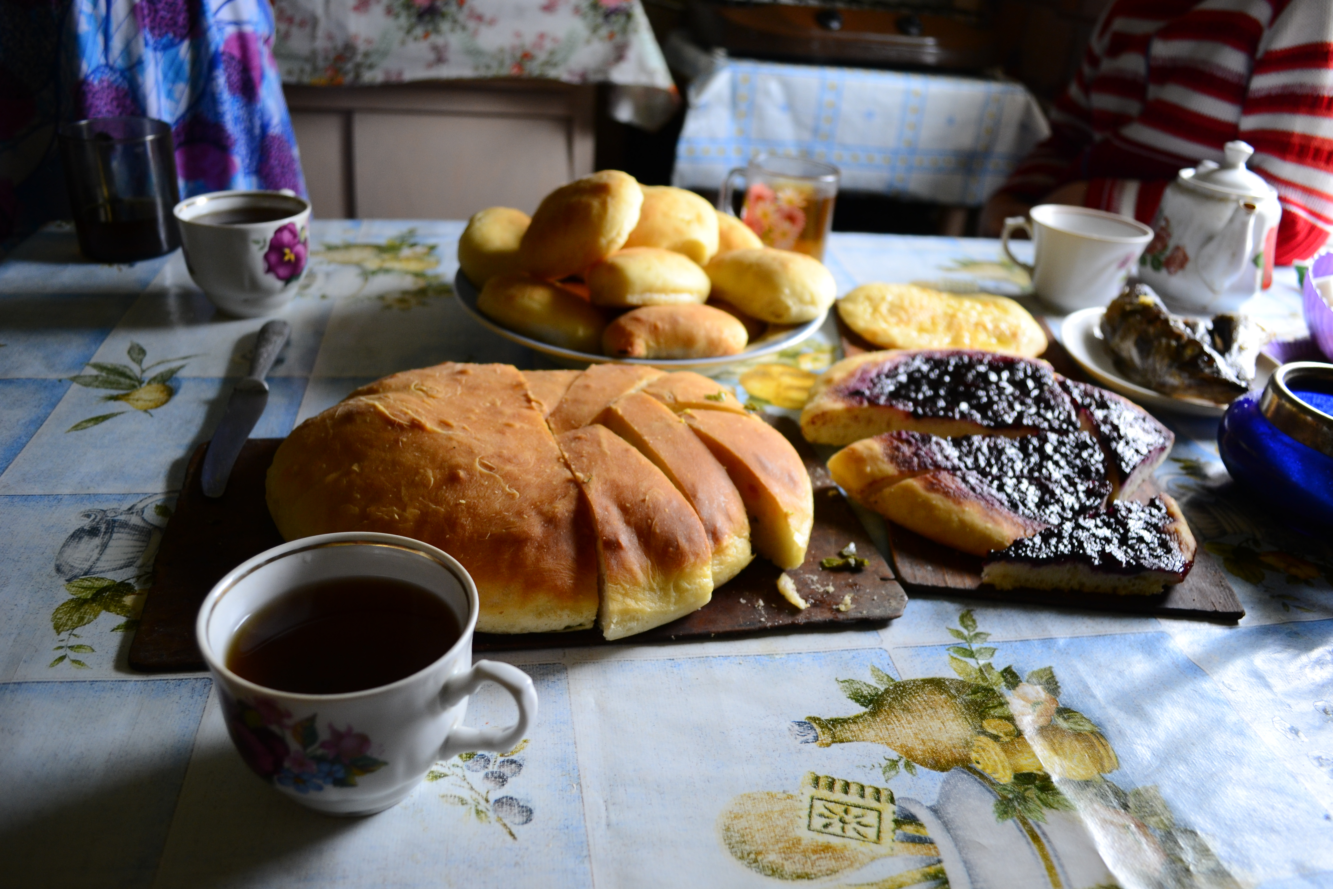 Vepsan pies